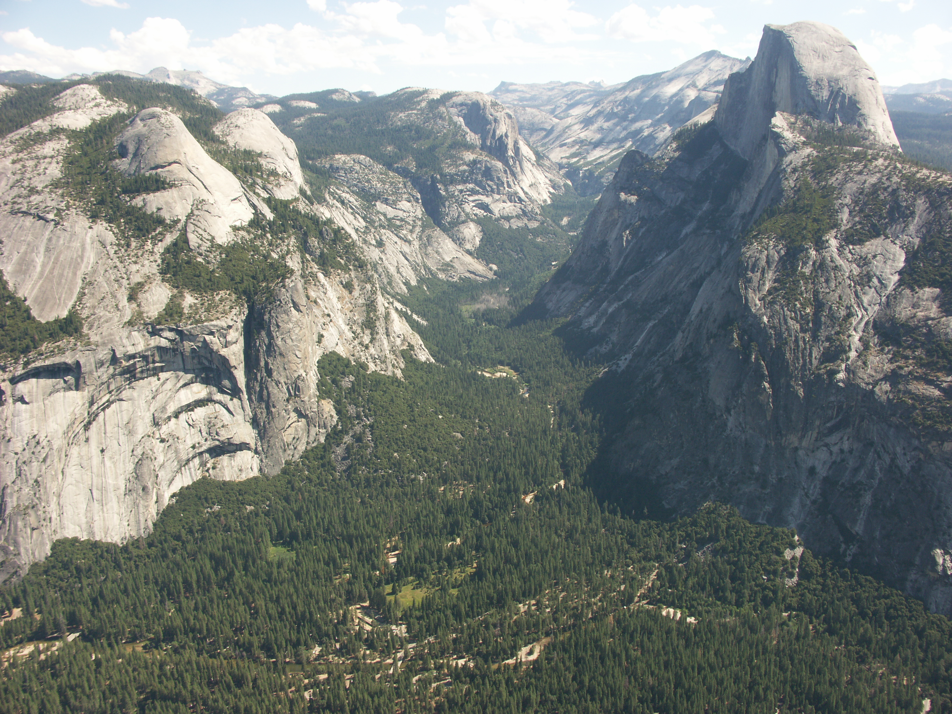 Scenery of Yosemite Valley.